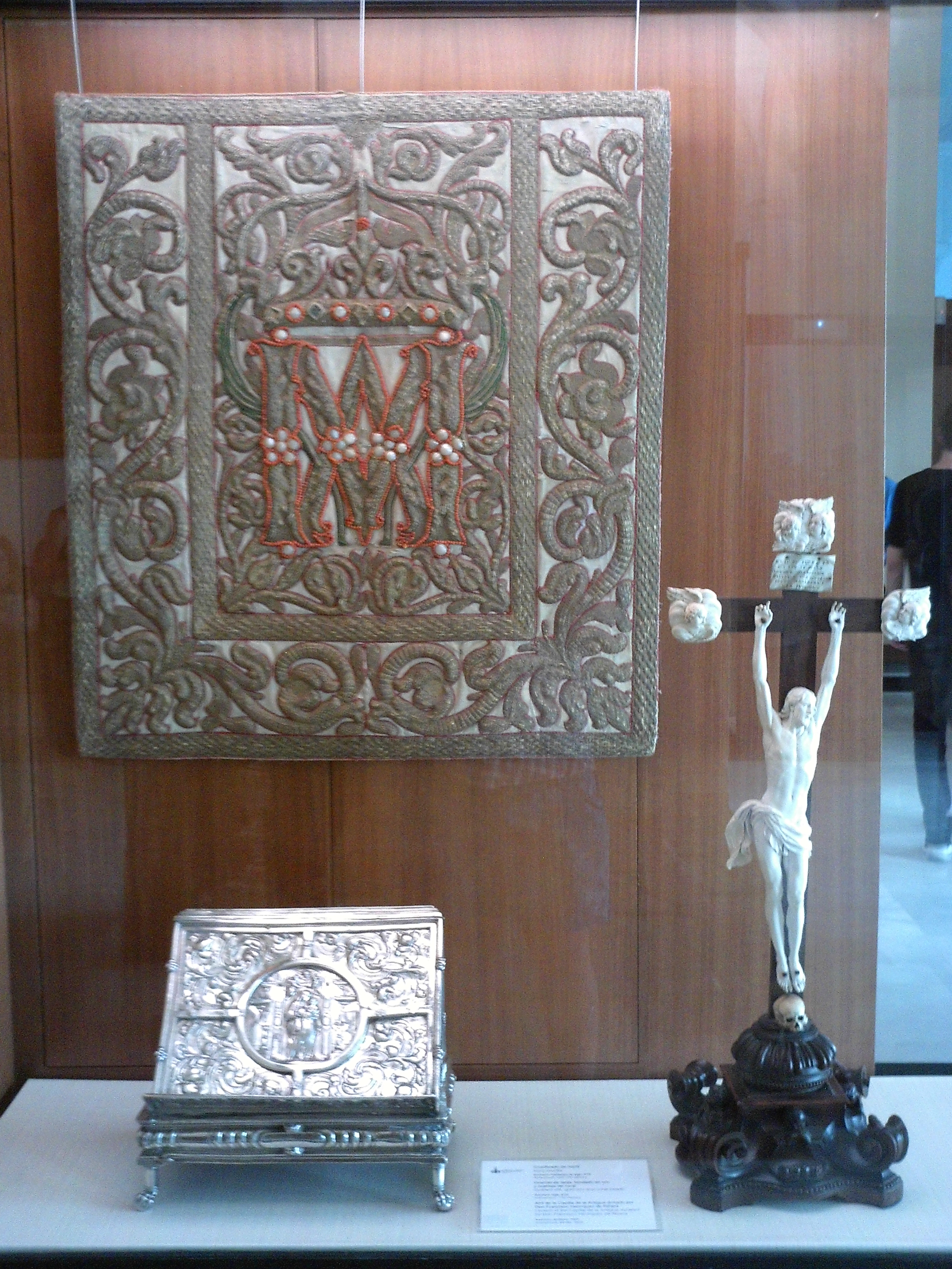 Gremial embroidered with Ave María monogram (17th century), a silver lectern dedicated to the Virgin of Antigua that was destined for her chapel (1604), and a crucifix with a skull of Adam.